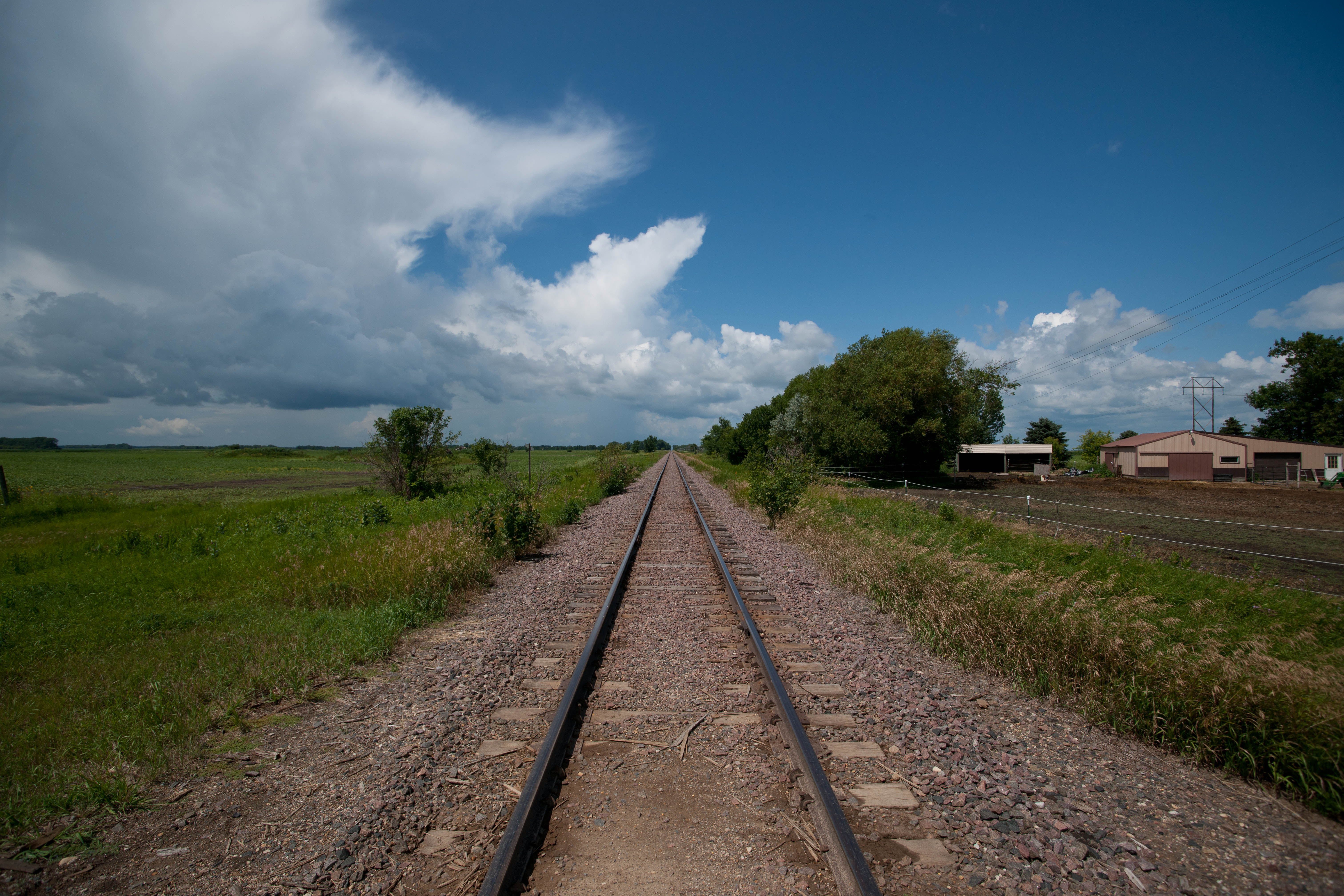 From Pitcairn, North Dakota